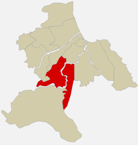 There was korekawa village in 1954. Now it is part of Hachinohe city.